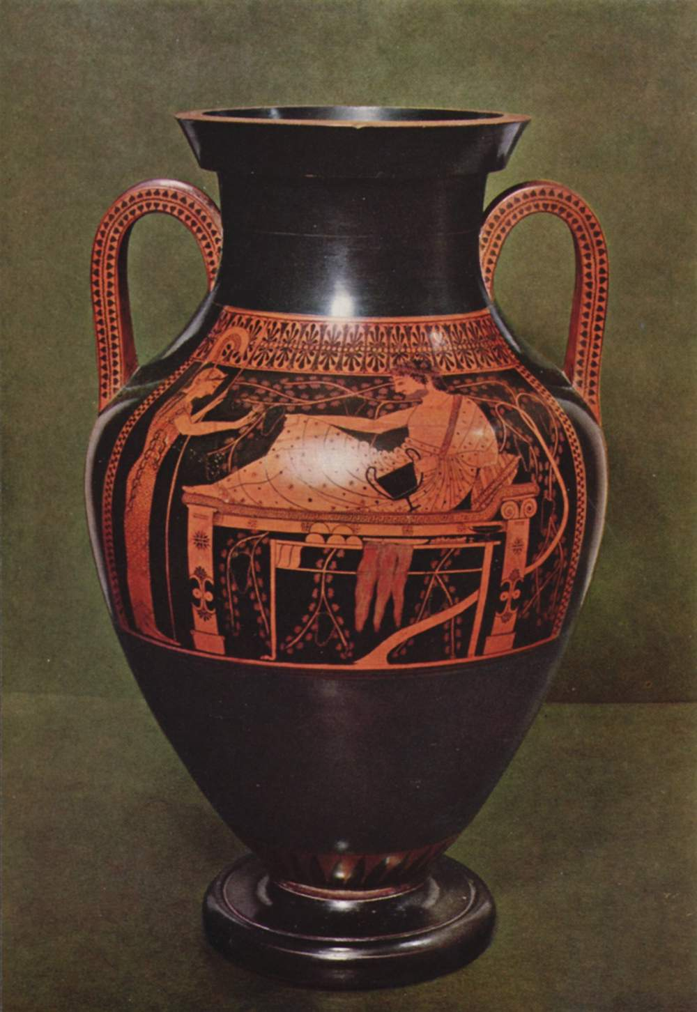 Heracles and Athena. Side A (red-figure) of an Attic bilingual amphora, 520–510 BC. From Vulci.